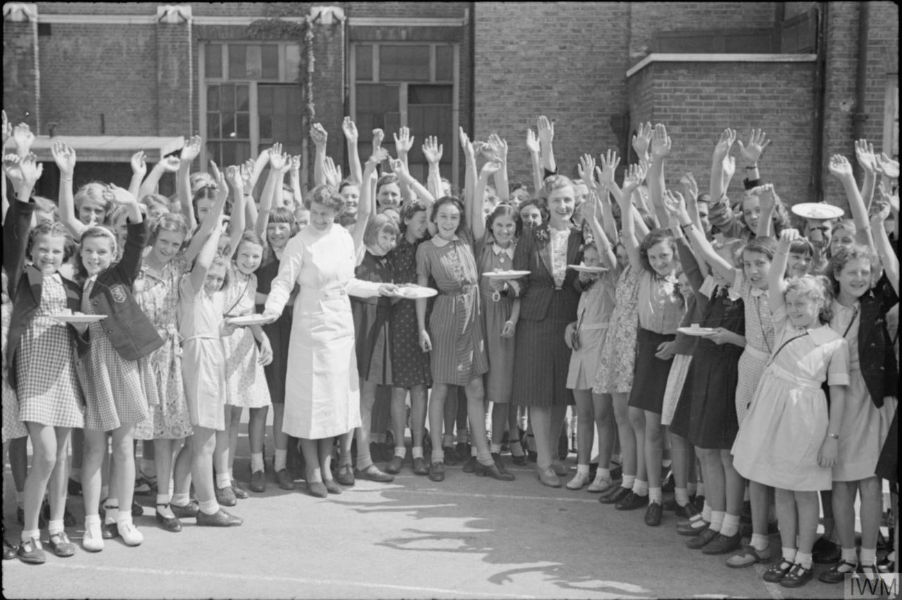 Aid From America- Lend-lease Food, London, England, 1941 A large group of smiling school children wave for the camera as they receive plates of bacon and eggs, imported from America as part of the Lend-Lease scheme. The headmistress of the school is in the centre. The photograph was taken in the playground of the school and was probably taken in late August or early September 1941.